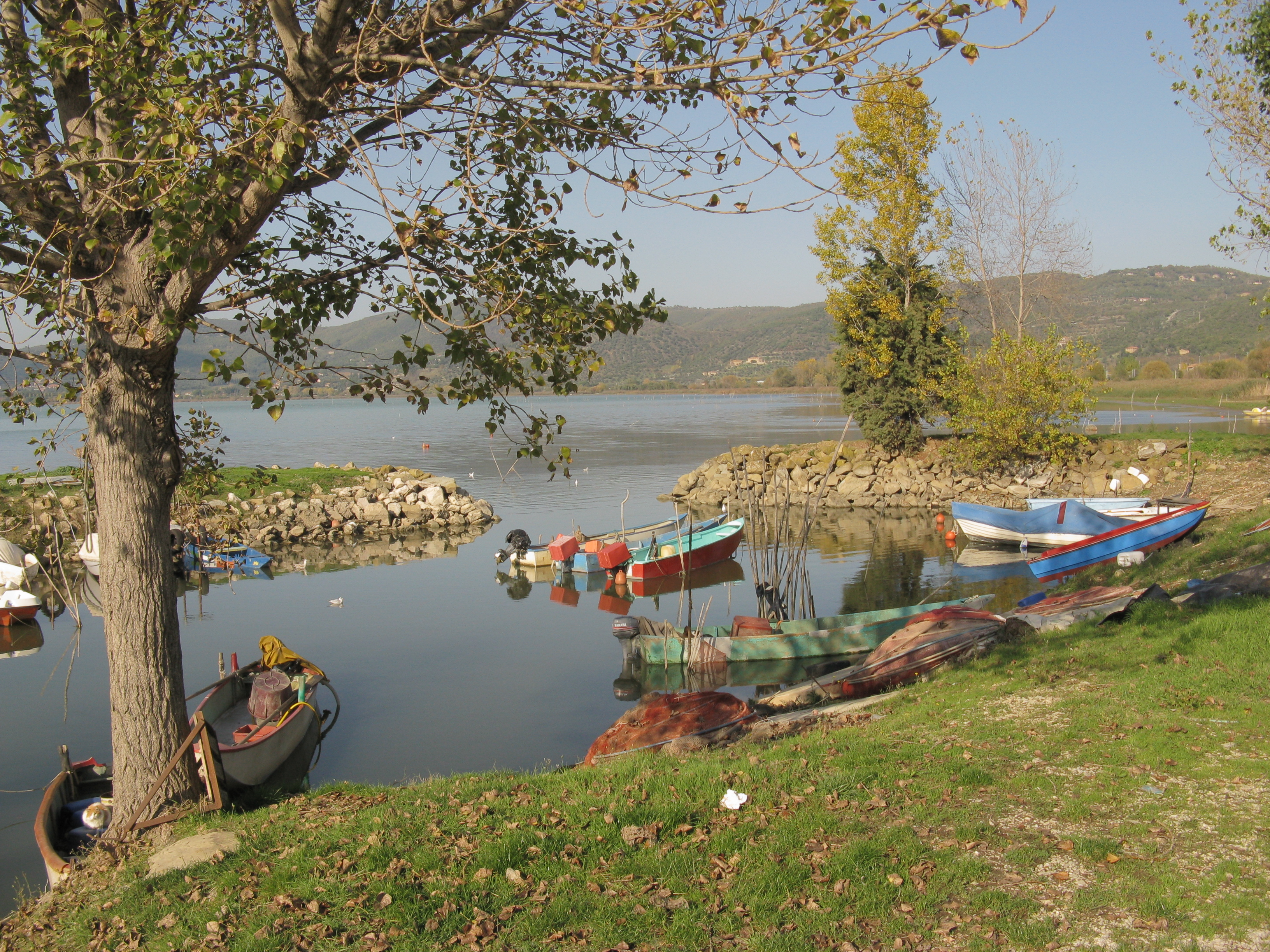 Fishing boats in the port of Torricella at the Lago Trasimeno in Umbria